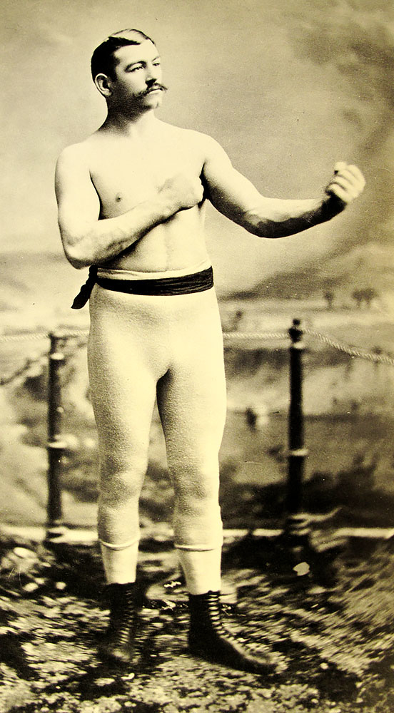 John Lawrence Sullivan (October 15, 1858 – February 2, 1918), also known as the Boston Strong Boy, in his prime. He was recognized as the first heavyweight champion of gloved boxing from February 7, 1882 to 1892, and is generally recognized as the last heavyweight champion of bare-knuckle boxing under the London Prize Ring rules.